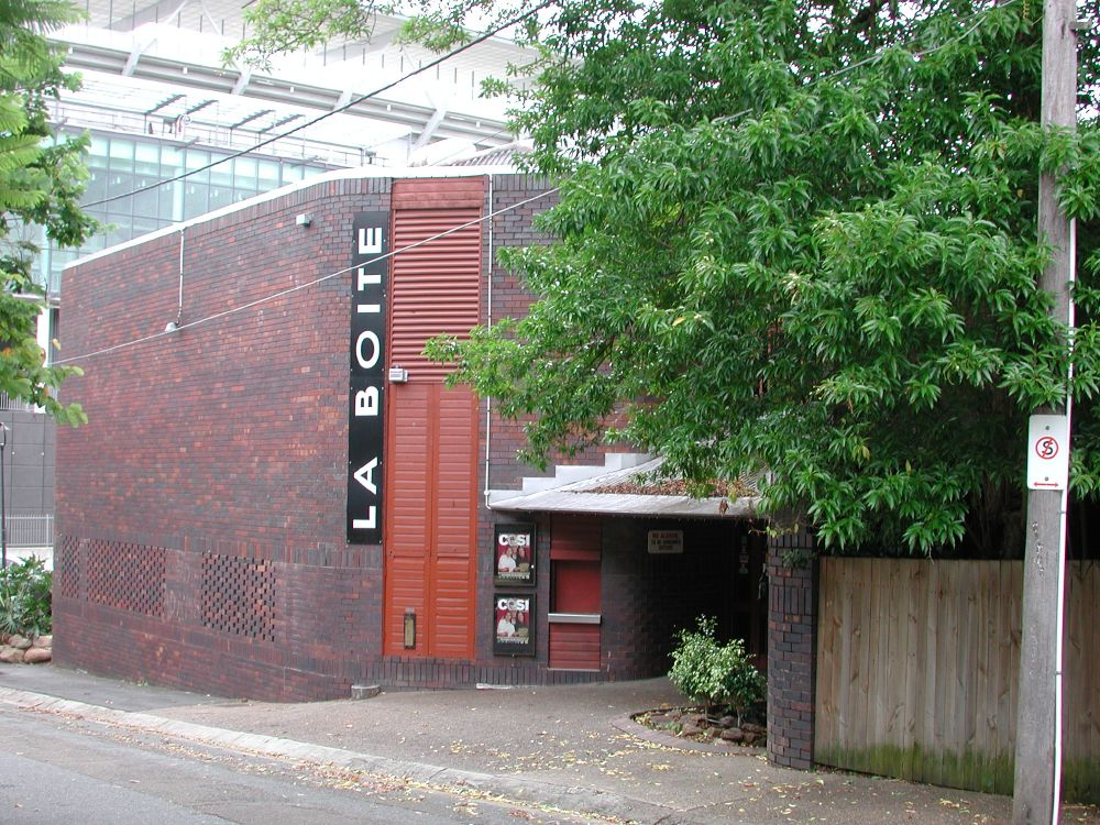 La Boite Theatre (2003), with posters for "Cosi"